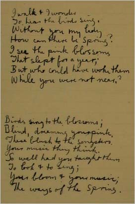 Spring